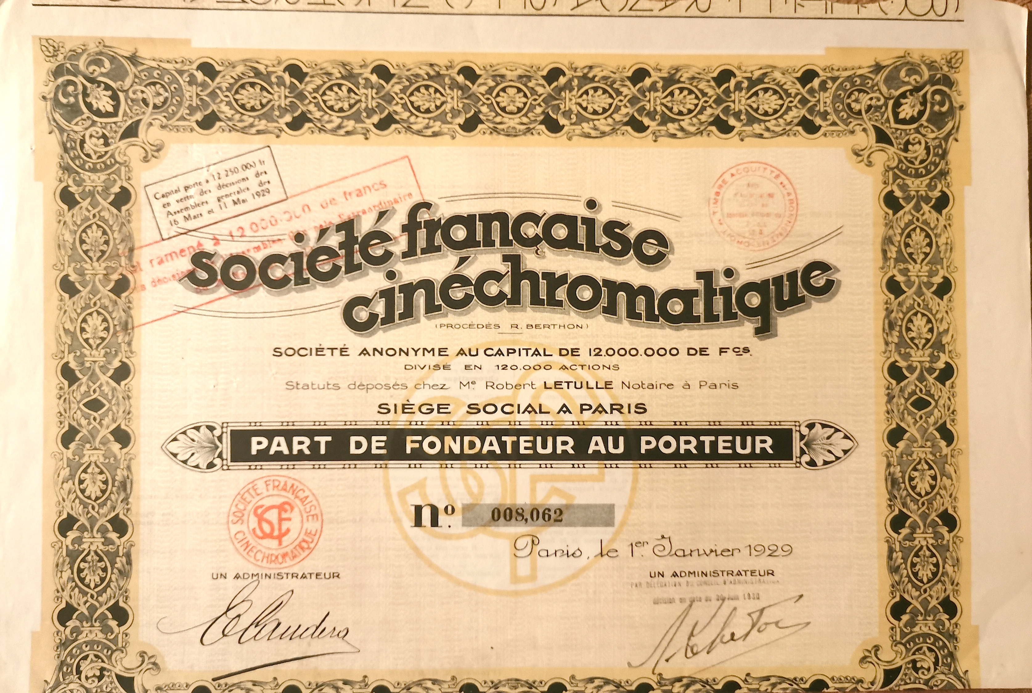 Société Française Cinéchromatique (procédés R. Berthon), share certificate issued 1st. January 1929 - signed by E. Caudera and R. Berthon.